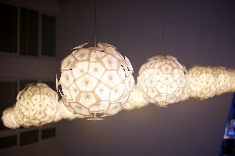 The so-called Philharmonieleuchte (Lamp of the Philharmonic) above the stairs of the Staatsbibliothek zu Berlin (building Potsdamer Strasse). The lamp was designed by Günter Ssymmank for the hall of the Philharmonic building across the street, which is where the name derived from.